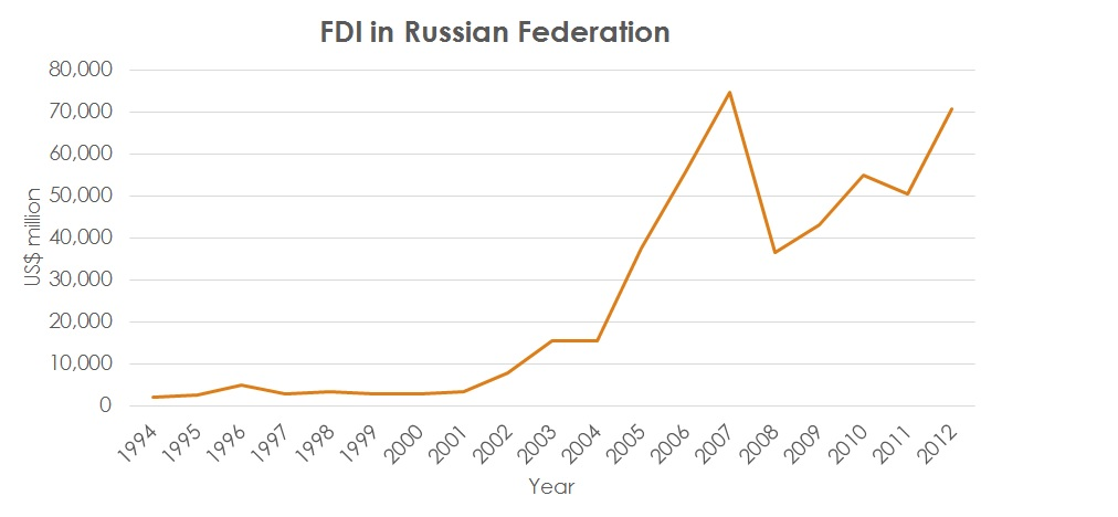 FDI in Russian Federation